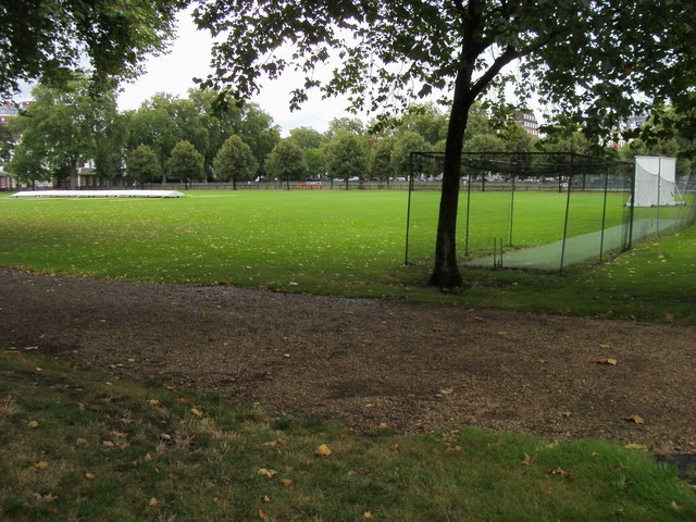 Cricket field on Burtons Court Cricket field on Burtons Court off Royal Hospital Road